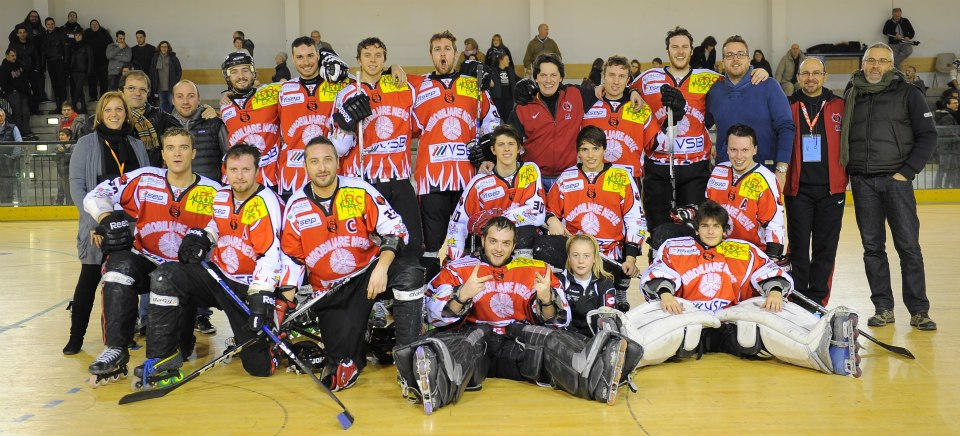 Diavoli Vicenza in-line hockey team